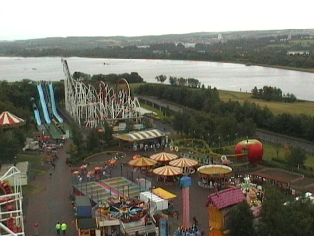 "M & Ds" near Strathclyde Park.